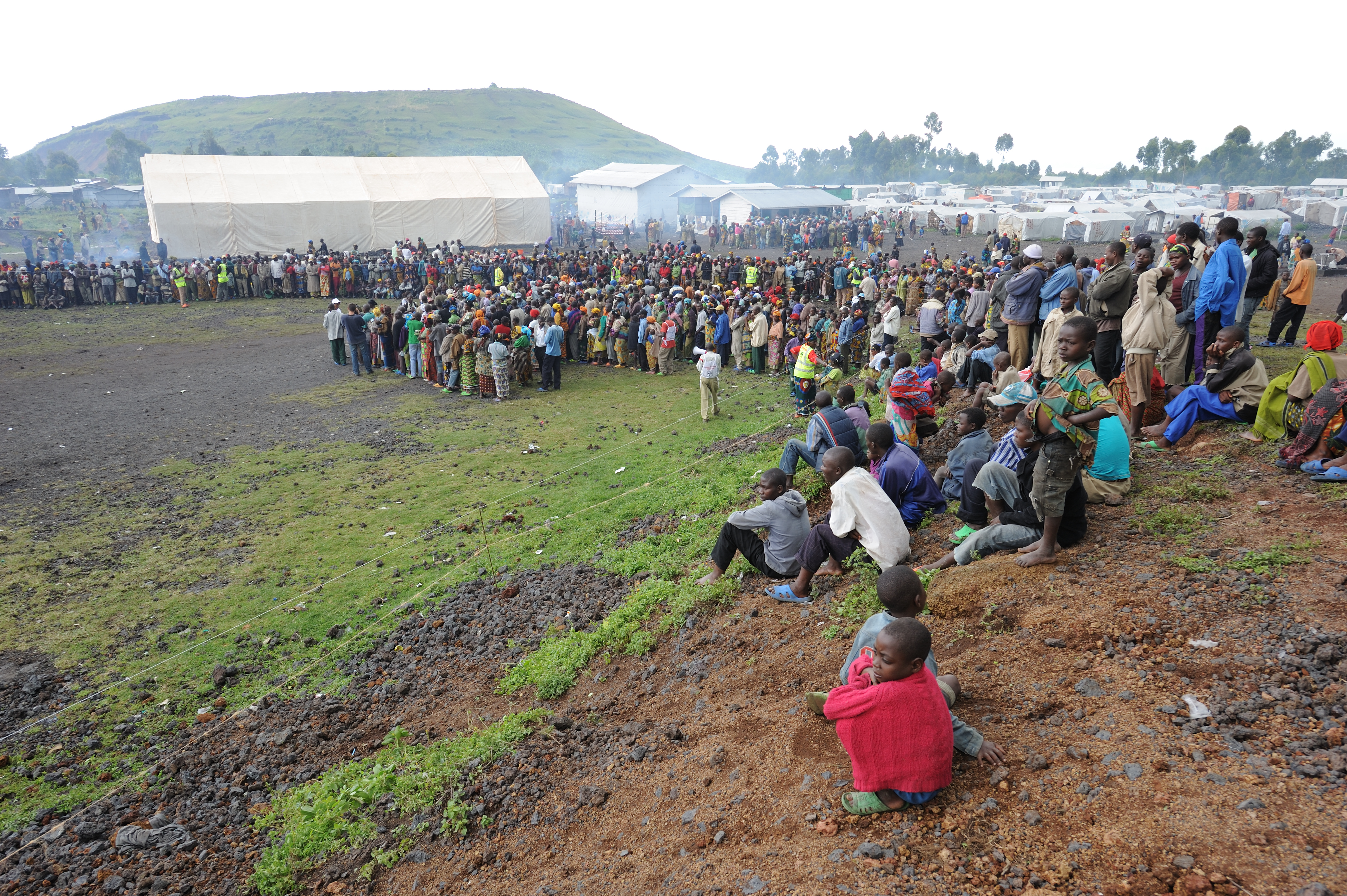 "Kibati camp is between the government forces postions and the CNDP rebels, about a kilometer separates them. Through our implementing partner Solidarites we started the distribution of plastic sheets, blankets, jerrycans, soap, and cooking sets to thousands in Kibati; these are essential survival items that will ward off diseases such as malaria, respiratory infections, cholera, diarrhea, etc. We aim to serve 3,000 families. At the same time we had measles vaccinations continue for 13,000 children in Kibati; like cholera, measles risks spreading rapidly during large population movement and is a major child killer With our partner Save the Children we working on reuniting children with their families; 152 children separated from their families identified in Kibati since Oct 27th. Our partner Mercy corps was trucking water for tens of thousands of displaced; hundreds of latrines constructed; and hygiene practices promoted; all these interventions are critical to containing the spread of cholera and diarrhea epidemics." - author